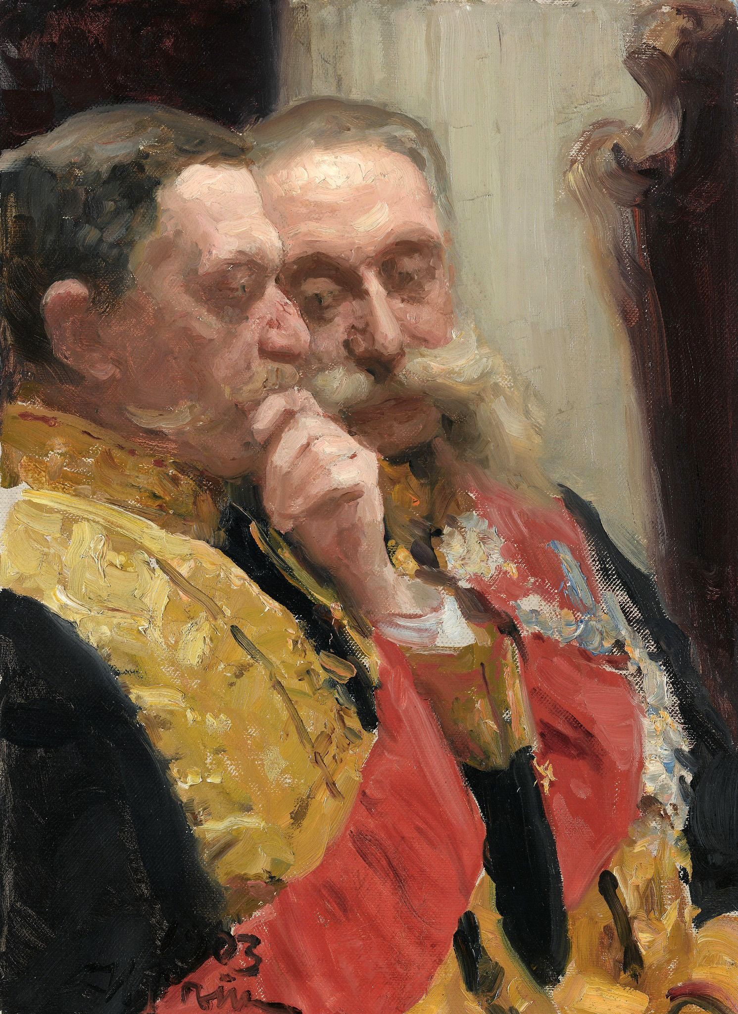 Portrait of members of State Council Ivan Logginovich Goremykin (on the right) and Nikolai Nikolayevich Gerard. Study for the picture Formal Session of the State Council. Oil on canvas. 63 × 45 cm. State Tretyakov Gallery, Moscow.